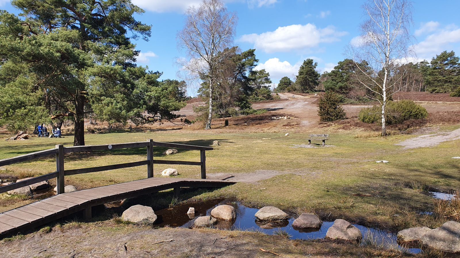 Büsenbach at Pferdekopf